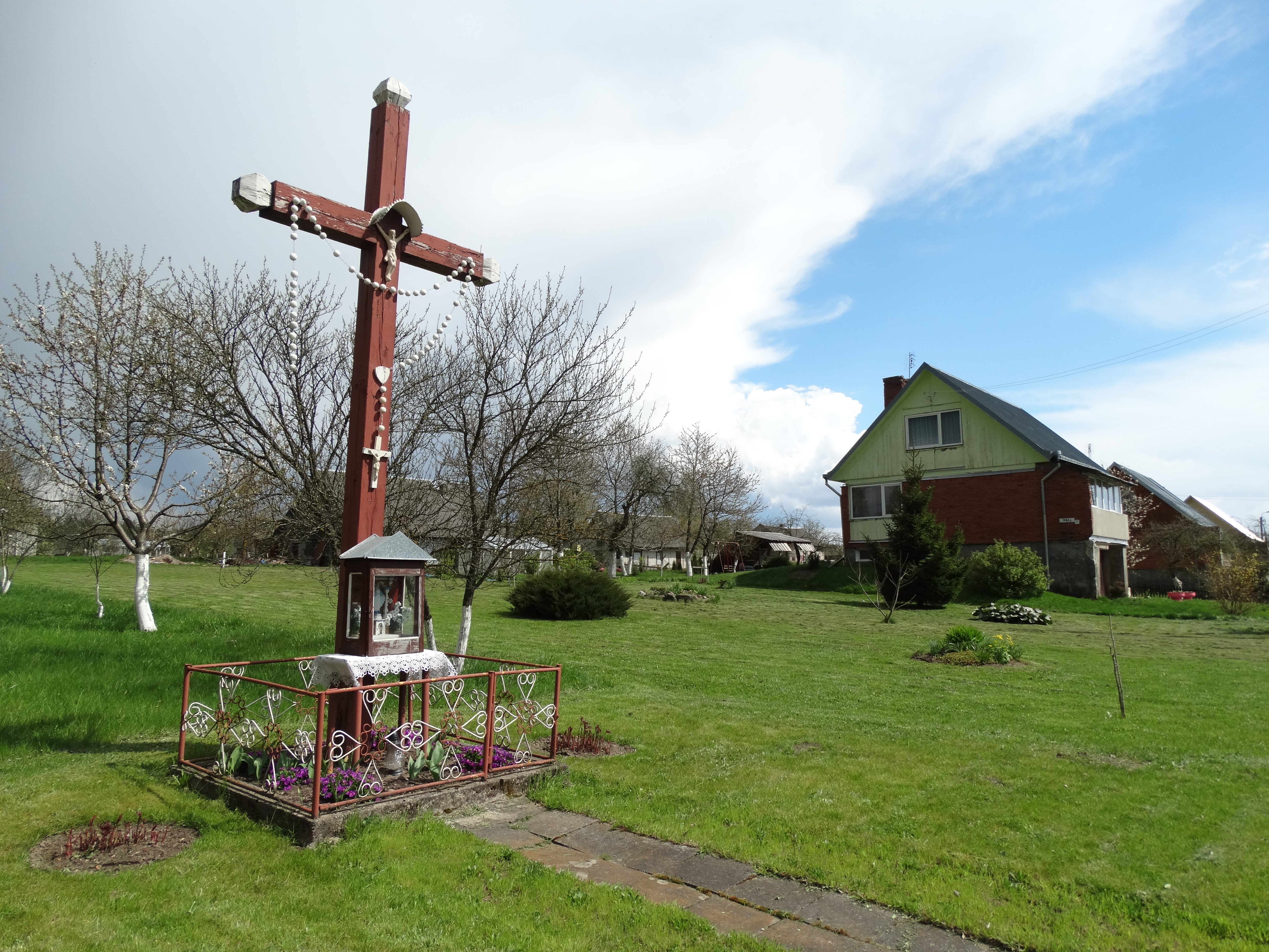 Cross, Šalčininkėliai, Šalčininkai District, Lithuania